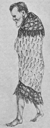 Te Whiti leaving Parihaka under arrest, November 5, 1881.